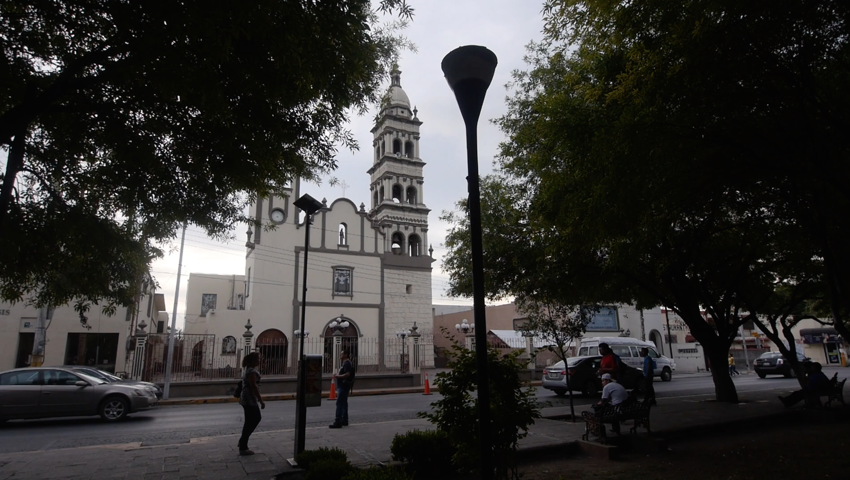 San Francisco de Asis Catholic Church and Parish located on the central square in Apodaca, Nuevo León, Mexico